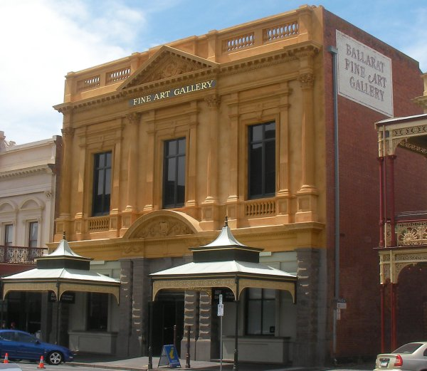 Ballarat Fine Art Gallery in 2010 after exterior facade restoration